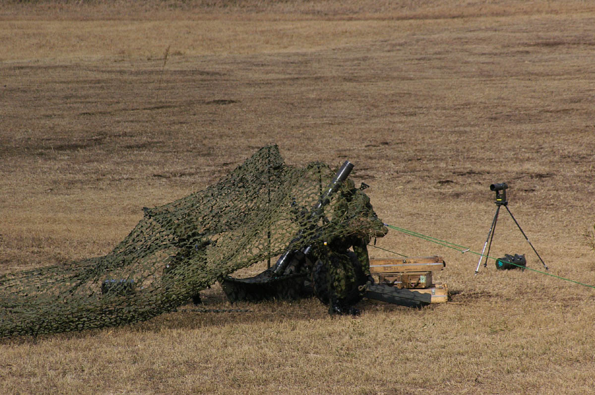 JGSDF 120mm mortar.In Narashino,Japan,JGSDF 1st Airborne Brigade 2008 first drop manuver